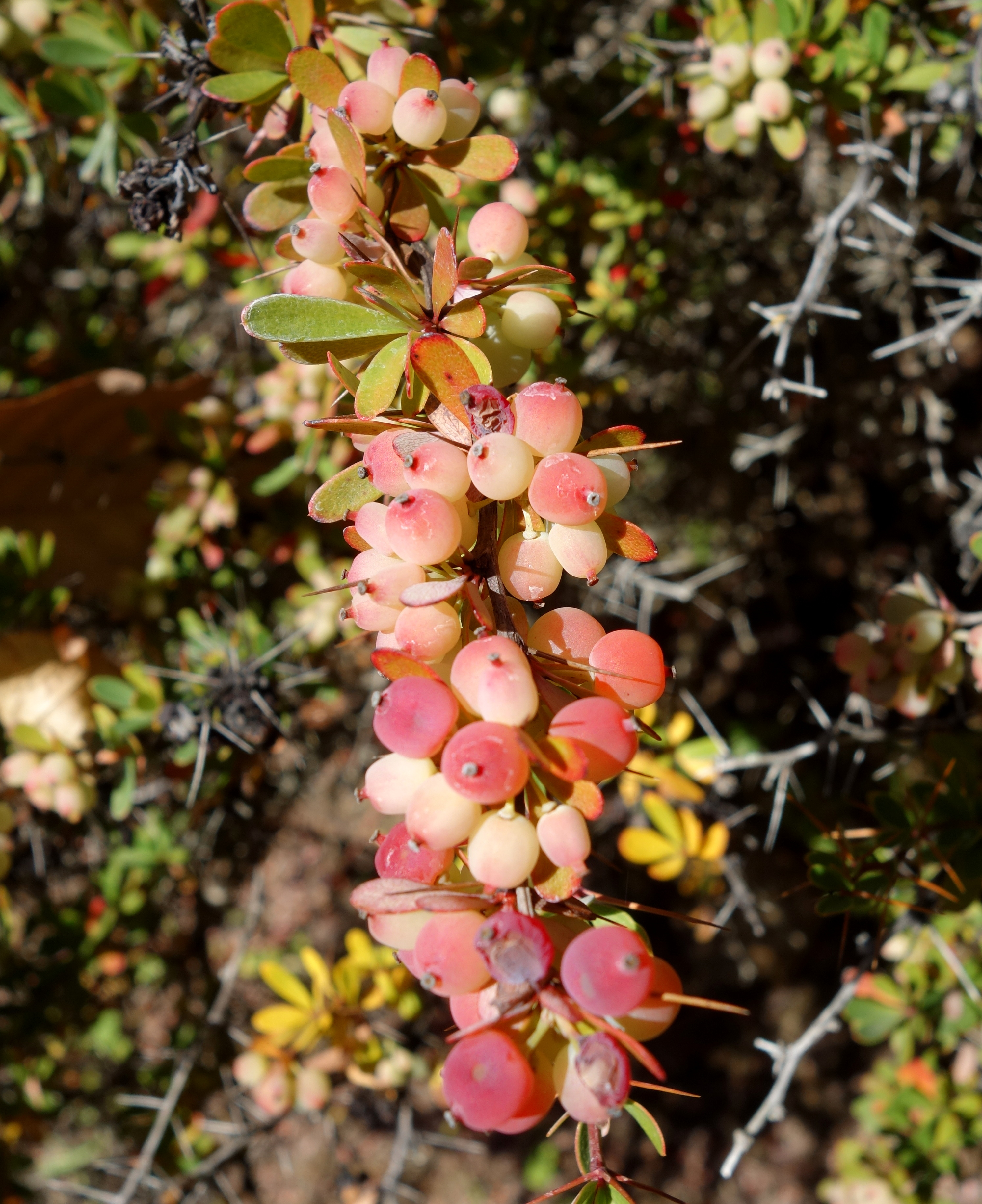 Botanical specimen in Quarryhill Botanical Garden, Glen Ellen, California, USA.